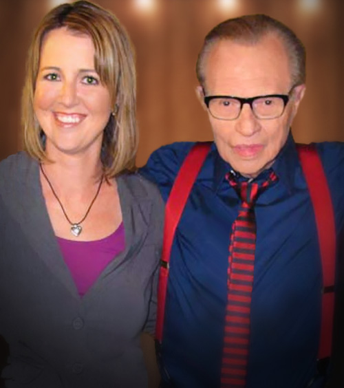 Christina with Larry King